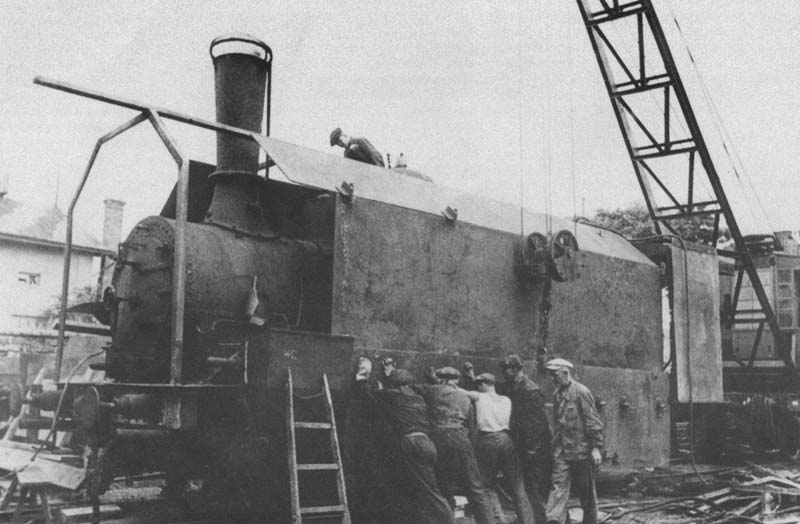 Russian armored train in WWII